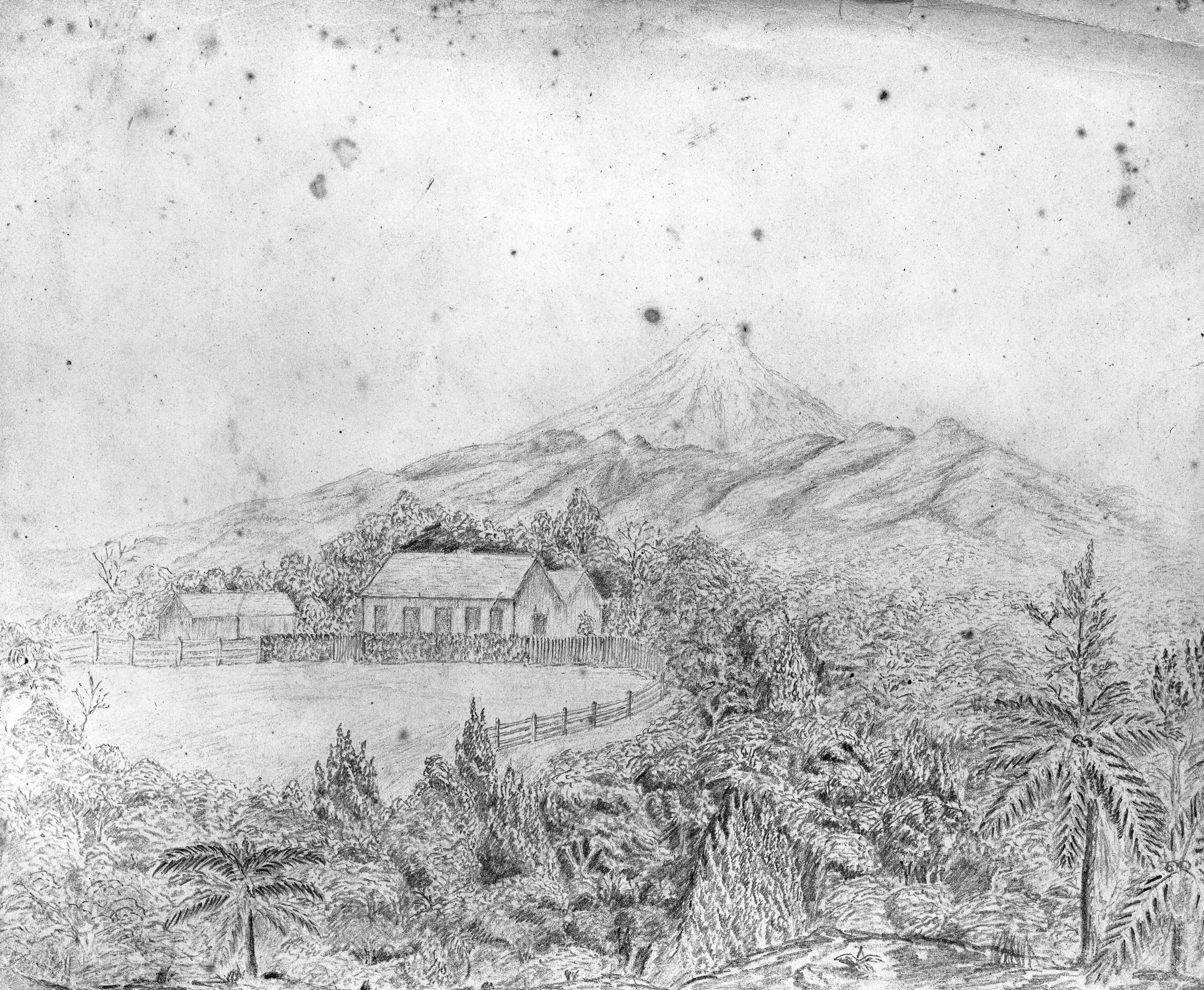 Brookwood, the home of the Rev. Henry Handley Brown, Omata, New Plymouth. Front view of a house with two gables and an outbuilding to its left, a fenced paddock or garden in the front, bush to the side and beyond the house and Mount Egmont in the background.